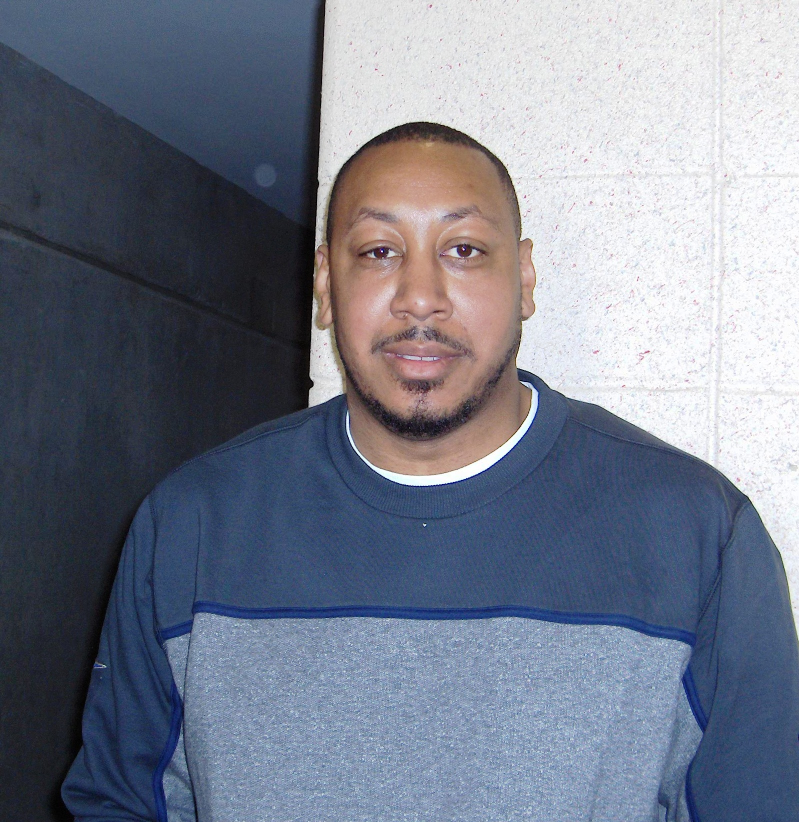 Photograph of Donyell Marshall taken at the 2011 NCAA Women's Basketball Division 1 Philadelphia Regional at the Liacouras Center on the Temple University campus